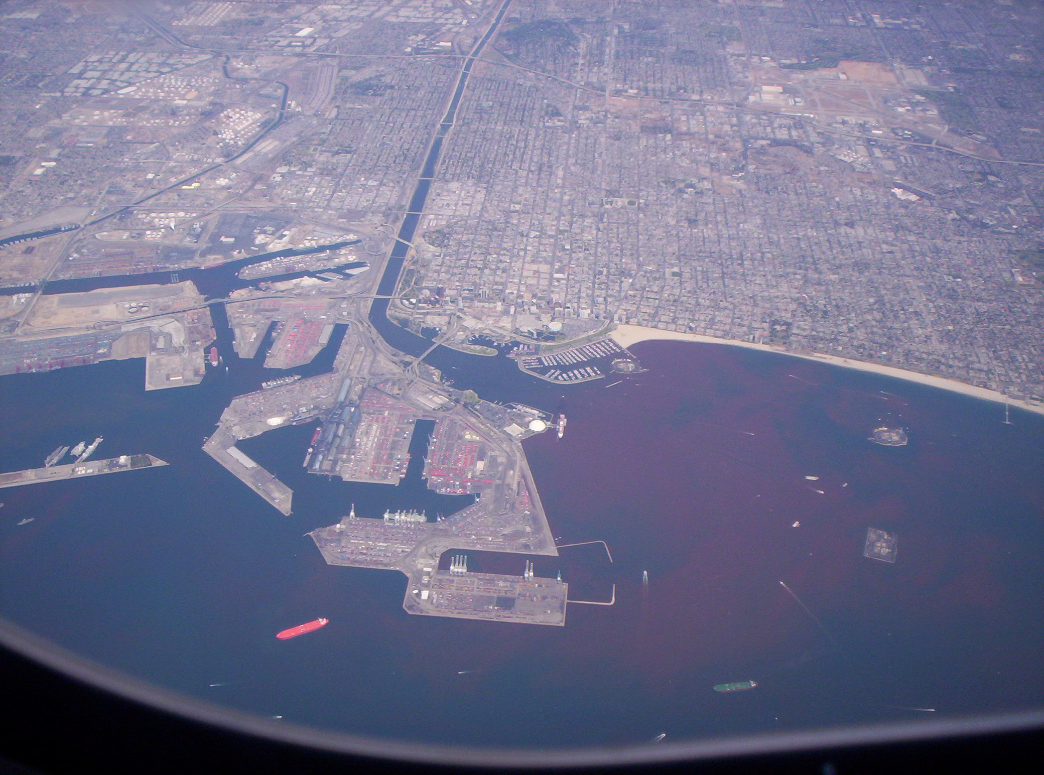 Aerial view of the Port of Long Beach, California